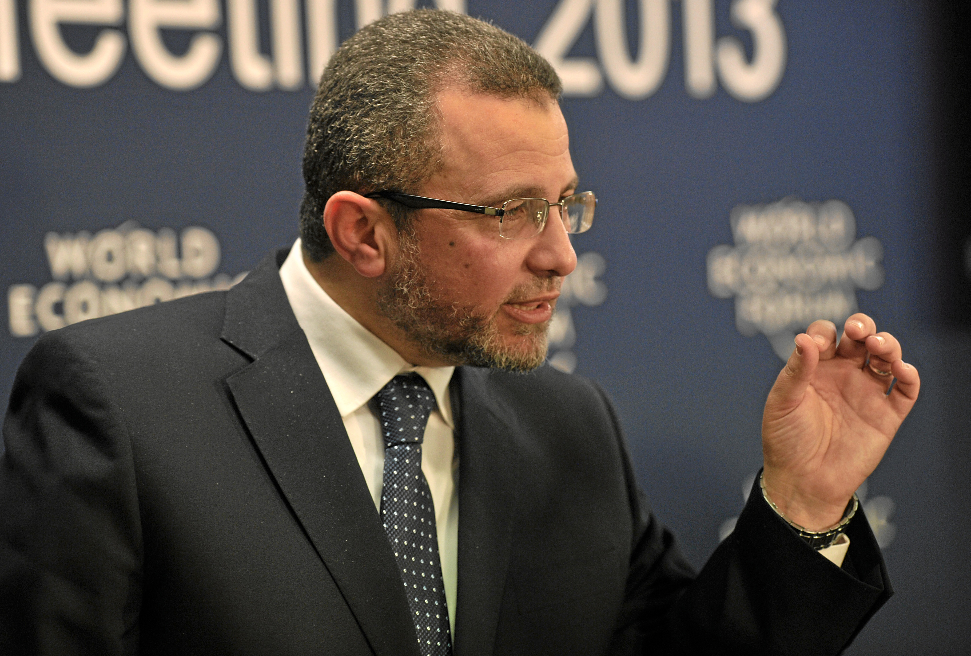 DAVOS/SWITZERLAND, 24JAN13 - Hesham Mohamed Qandil, Prime Minister of Egypt speaks at a press conference at the Annual Meeting 2013 of the World Economic Forum in Davos, Switzerland, January 24, 2013.. . Copyright by World Economic Forum. . Urs Jaudas